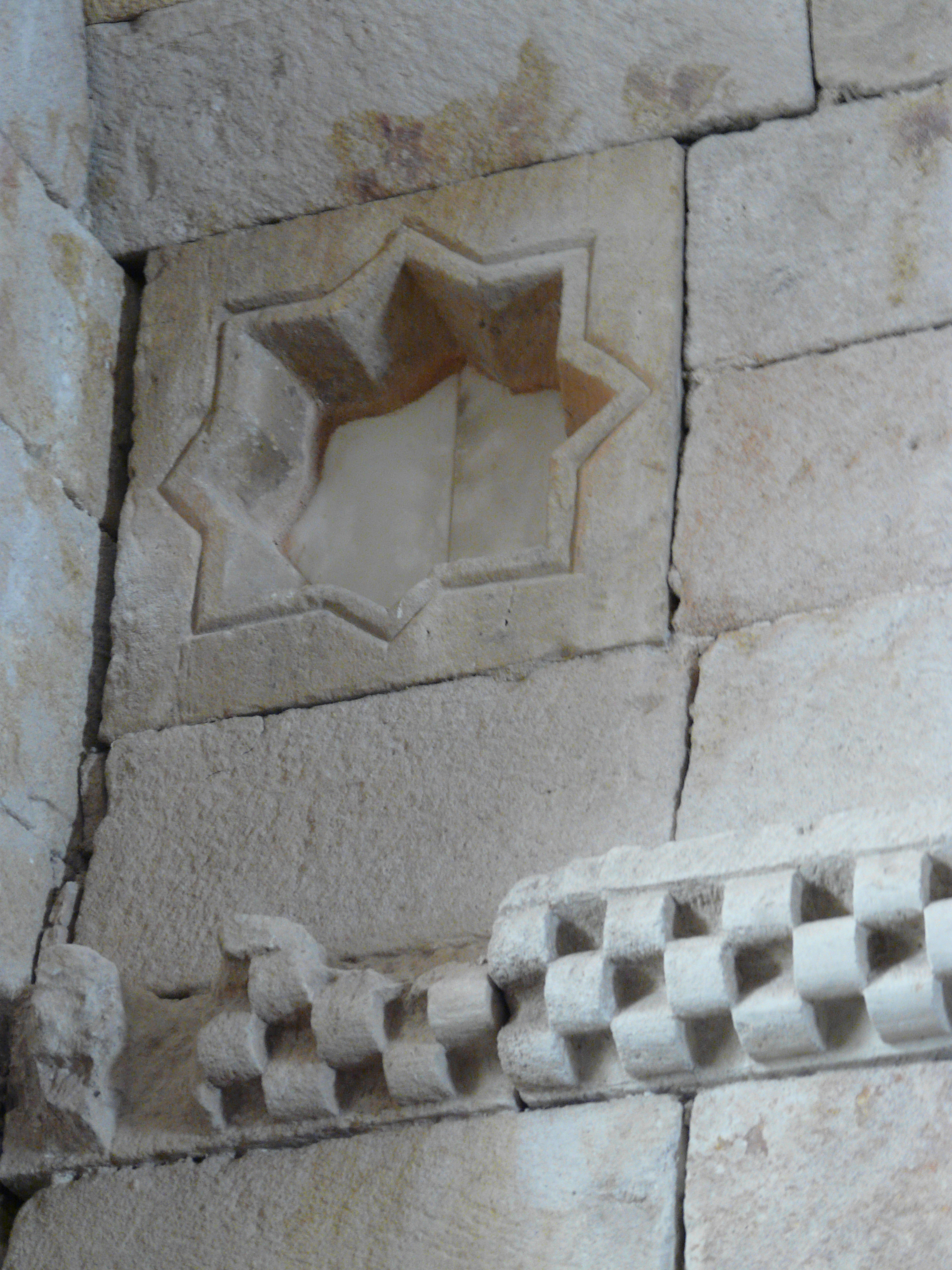 Eight-pointed star. Iglesia de Santo Tomé (Zamora), Spain.